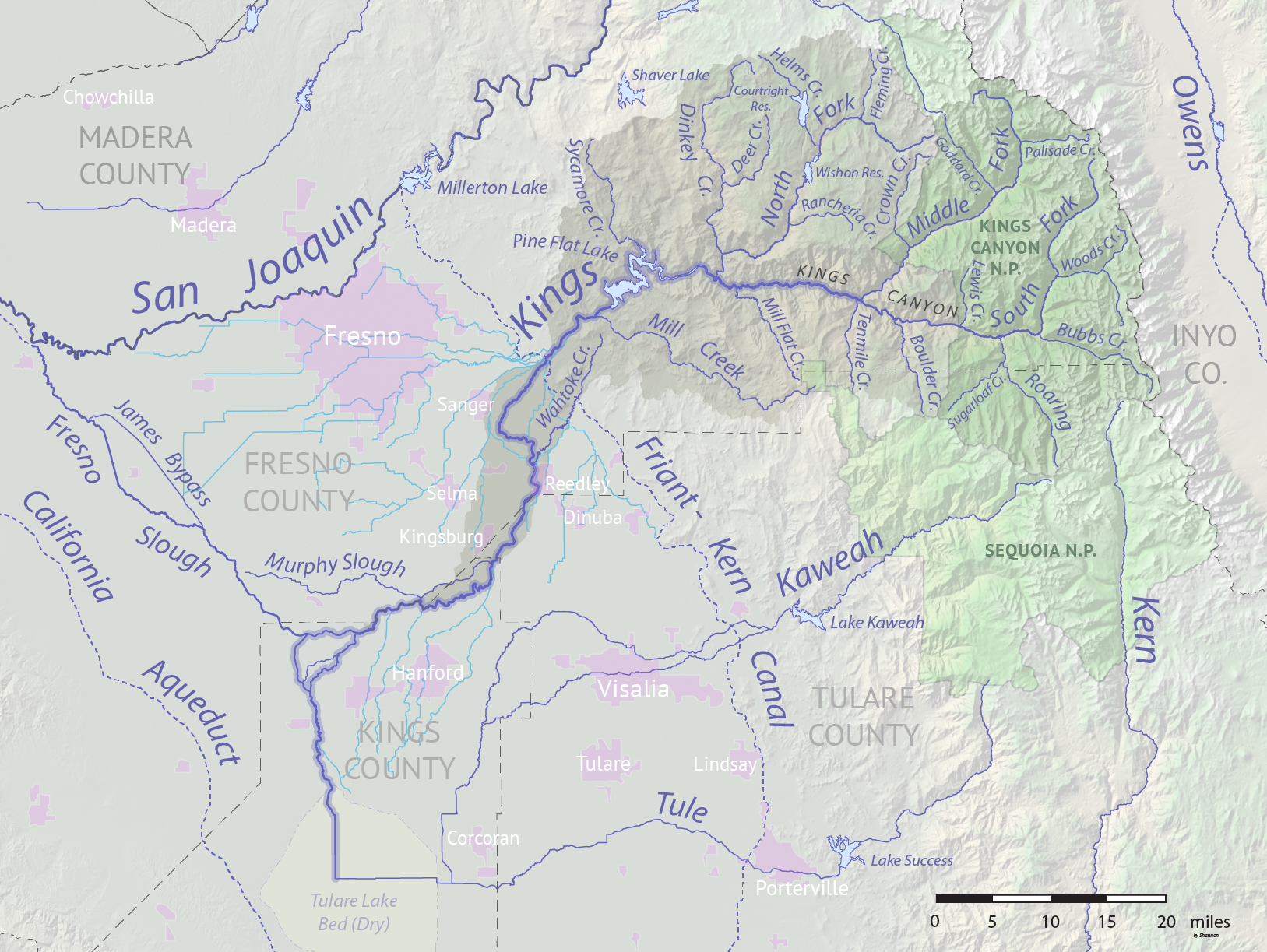 Map of the Kings River, California, USA. showing tributaries and distributaries. The network of canals fed by the Kings River is shown in light blue. Made using USGS National Map data.